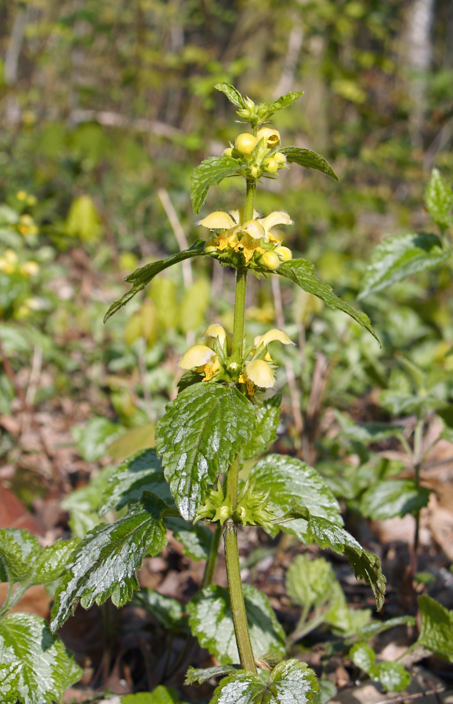 Yellow Archangel (Lamium argentatum), Chemnitz, Germany